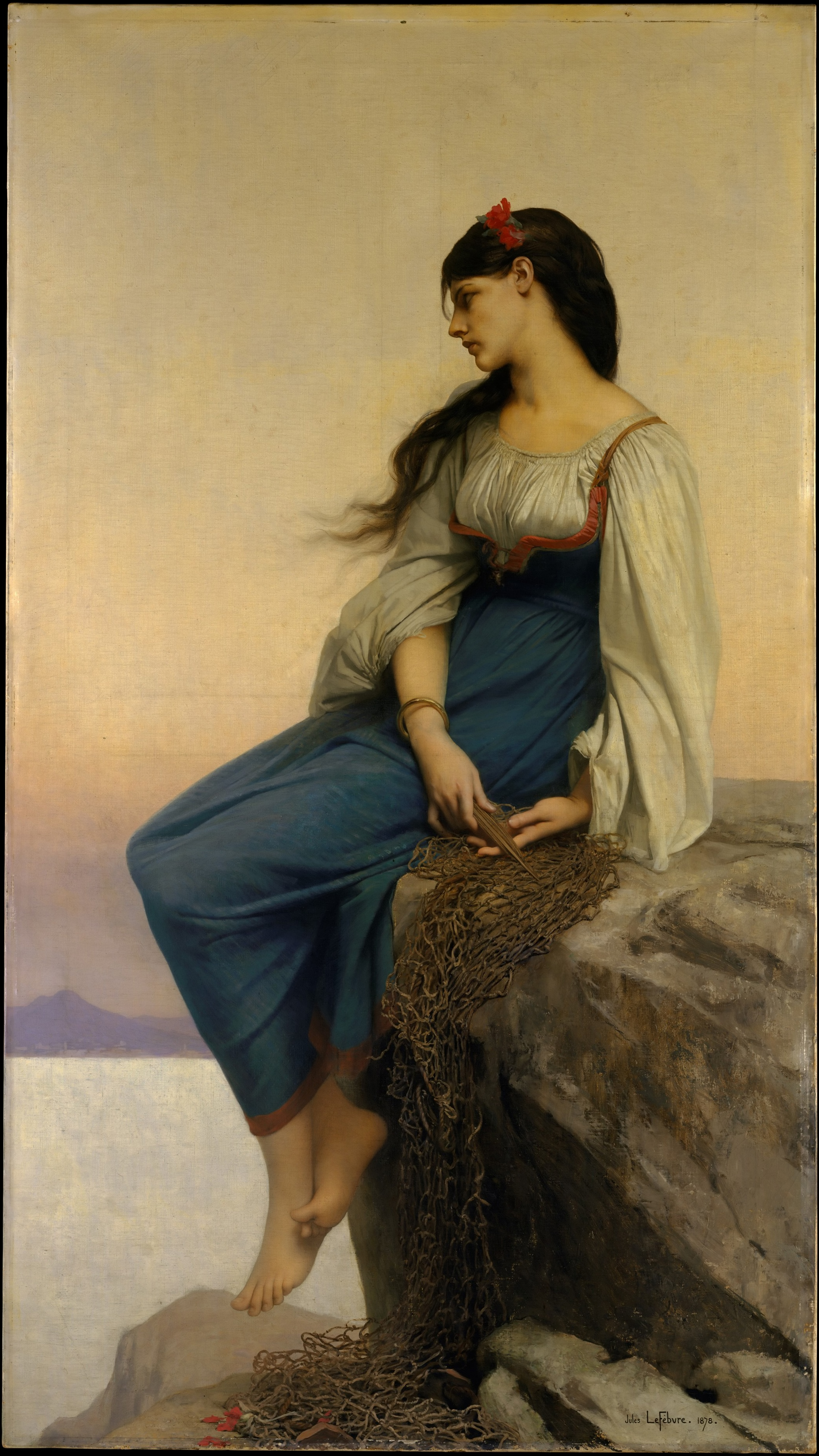 Jules-Joseph Lefebvre. Graziella. The Metropolitan Museum of Art. Oil on canvas. 78 3/4 x 44 1/4 in. (200 x 112.4 cm)